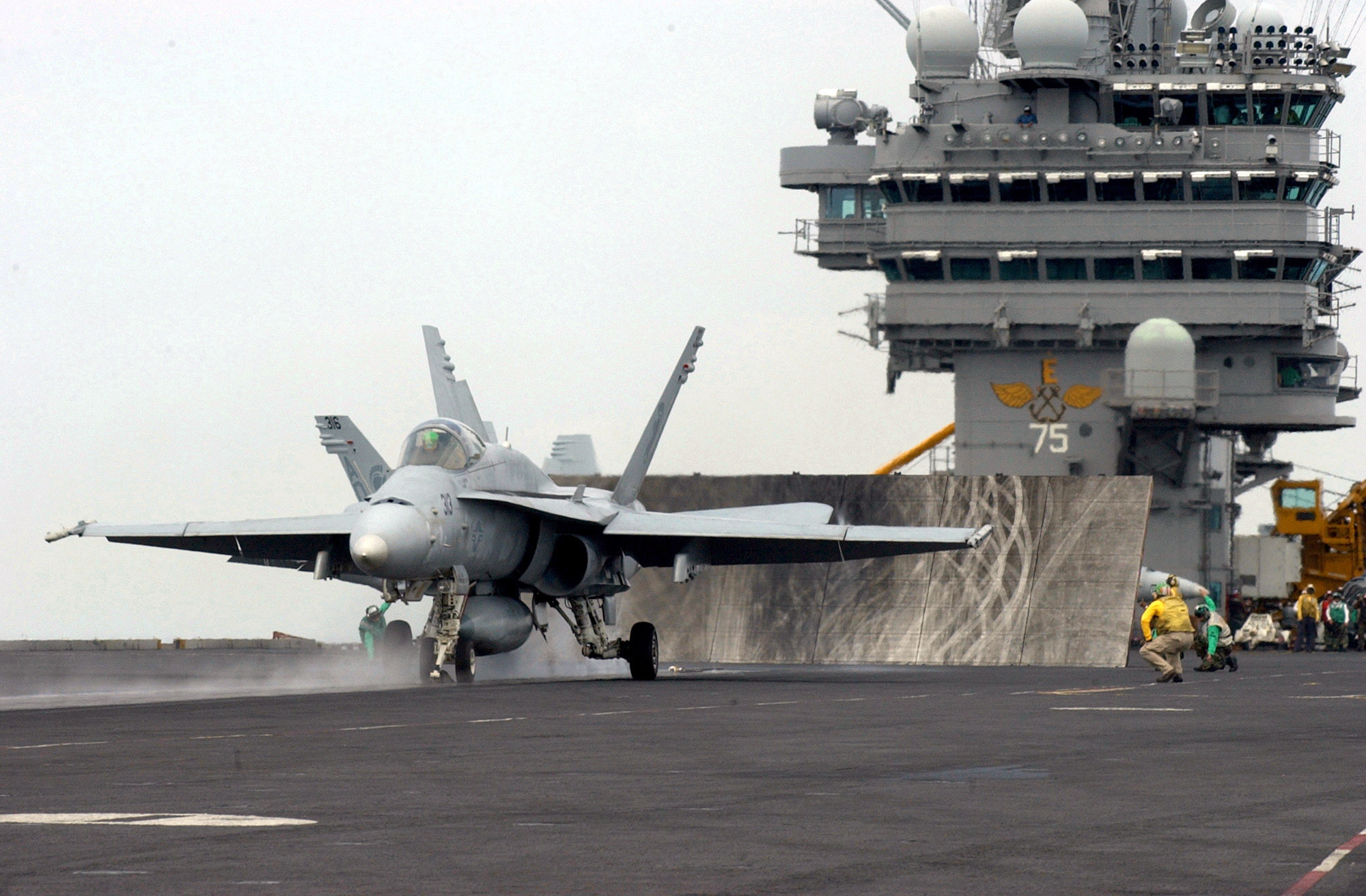 Atlantic Ocean (July 30 2005) - An F/A-18C Hornet assigned to the "Gladiators" of Strike Fighter Squadron One Zero Six (VFA-106) launches from the flight deck aboard the Nimitz-class aircraft carrier USS Harry S. Truman (CVN 75). Truman is currently conducting carrier qualifications and sustainment operations off of the East Coast.